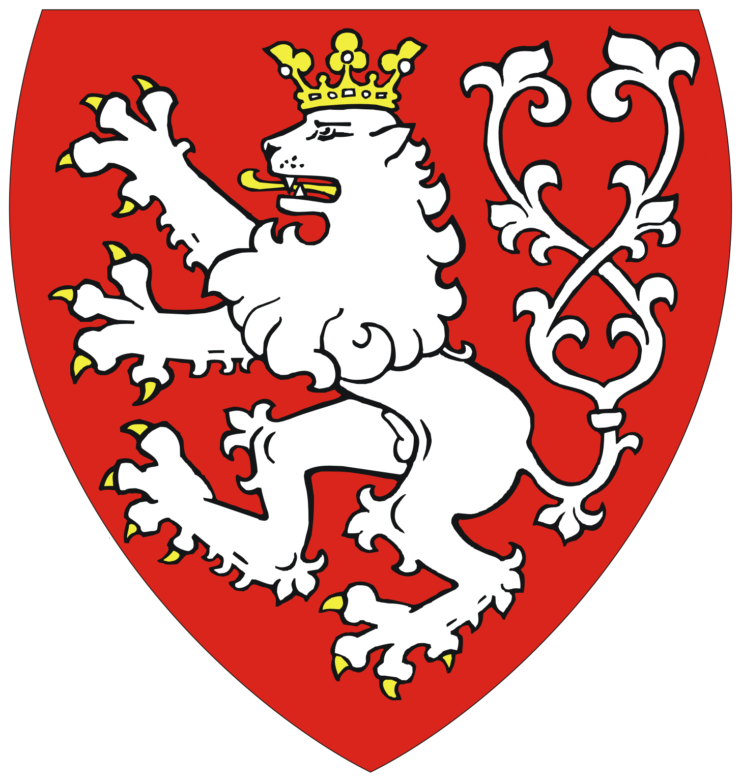 Coats of Chotebor